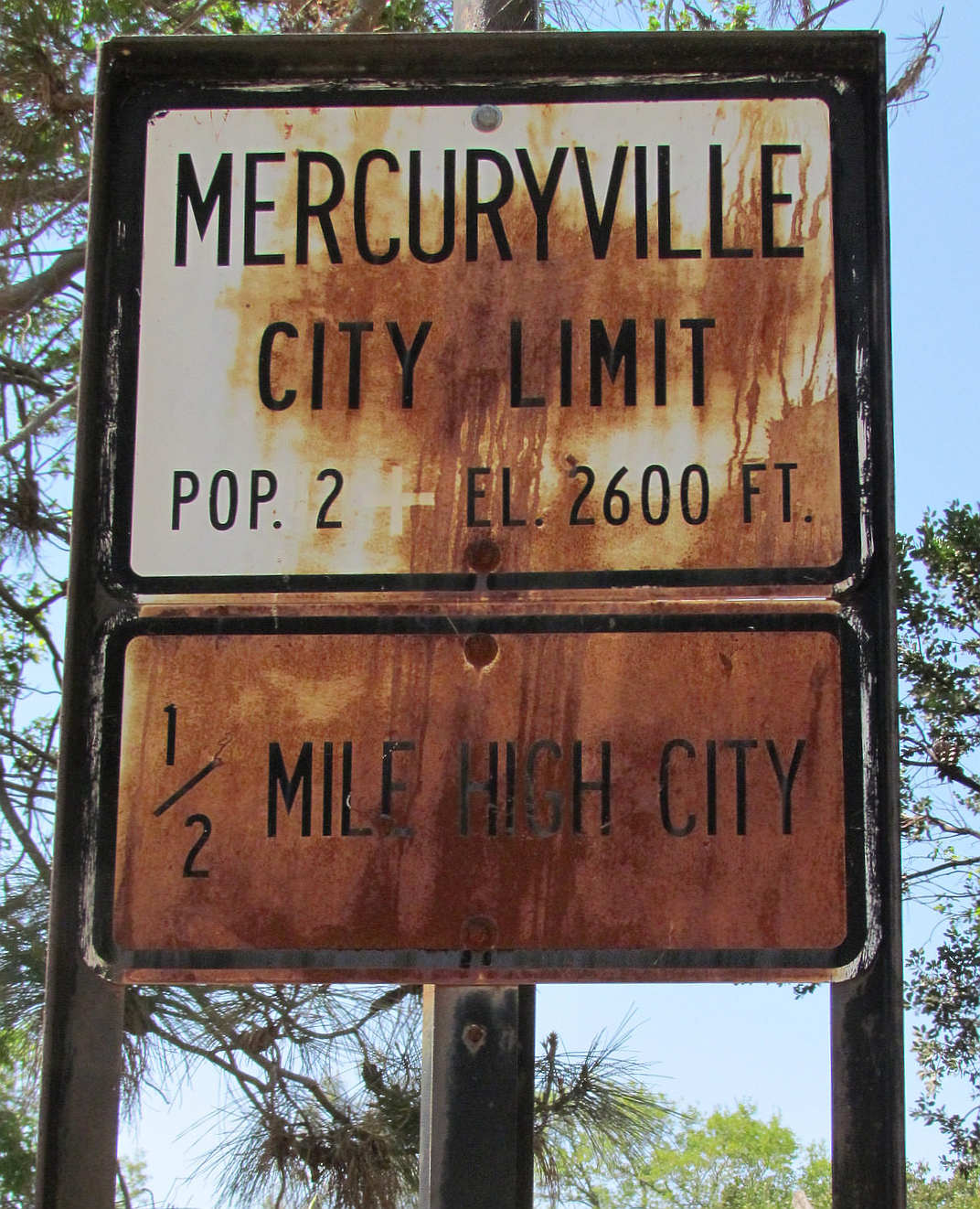 Mercuryville, California city limits sign from the 1950's